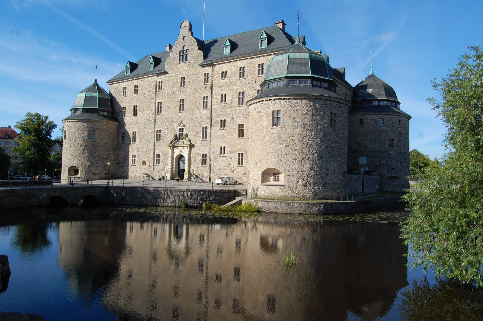 Picnic near nice castle, no filter, no photoshop, just pure beauty!